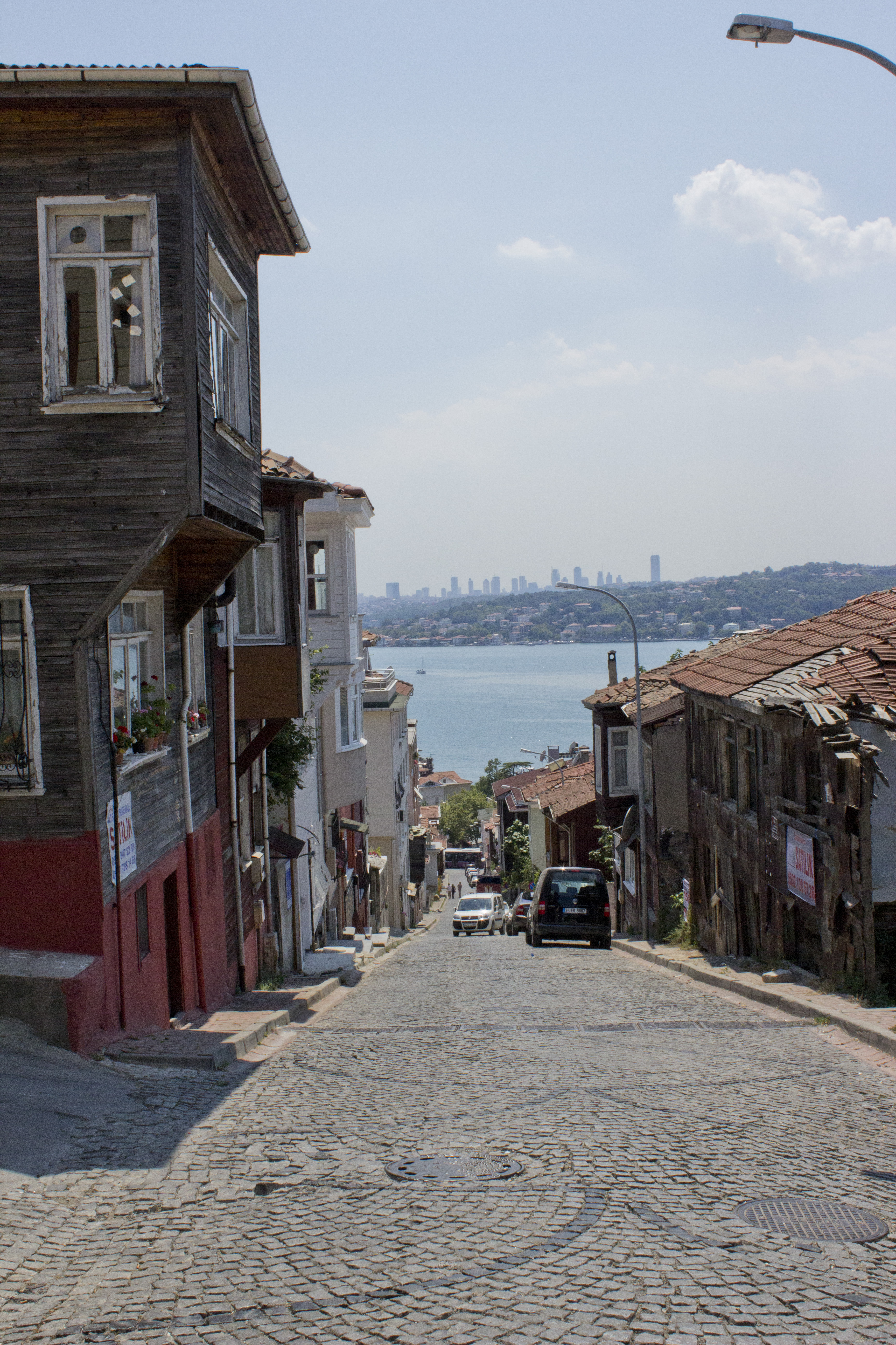 A view across the Bosporus from Yalıköy neighborhood in Beykoz, Asian Istanbul, Turkey.